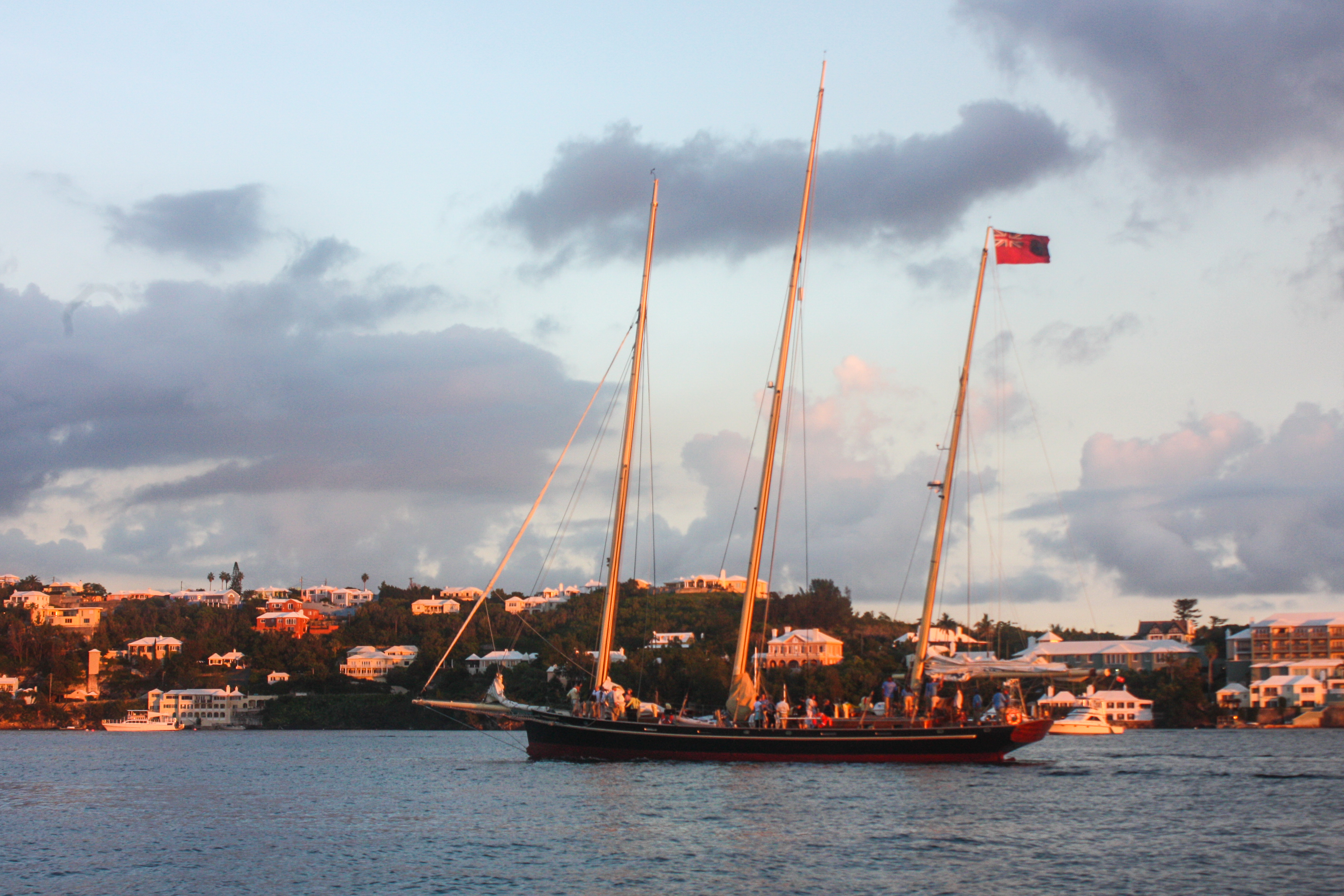 The Bermuda sloop the Spirit of Bermuda, belonging to the Bermuda Sloop Foundation, on Hamilton Harbour, Bermuda.